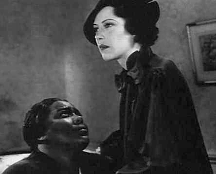 Louise Beavers (left) & Fredi Washington in Imitation of Life - trailer (cropped screenshot)